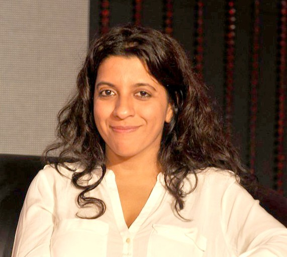 Zoya Akhtar at the Audio release of Talaash, Oct 2012